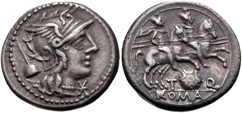 T. Quinctius Flamininus. 126 BC. AR Denarius (19mm, 3.78 g, 12h). Rome mint. Helmeted head of Roma right; apex to left, mark of value below chin / The Dioscuri riding right, each holding spear; below, T Q flanking Macedonian shield. Crawford 267/1; Sydenham 505; Quinctia 1. VF, toned. From the Archer M. Huntington Collection, ANS 1001.1.25442.